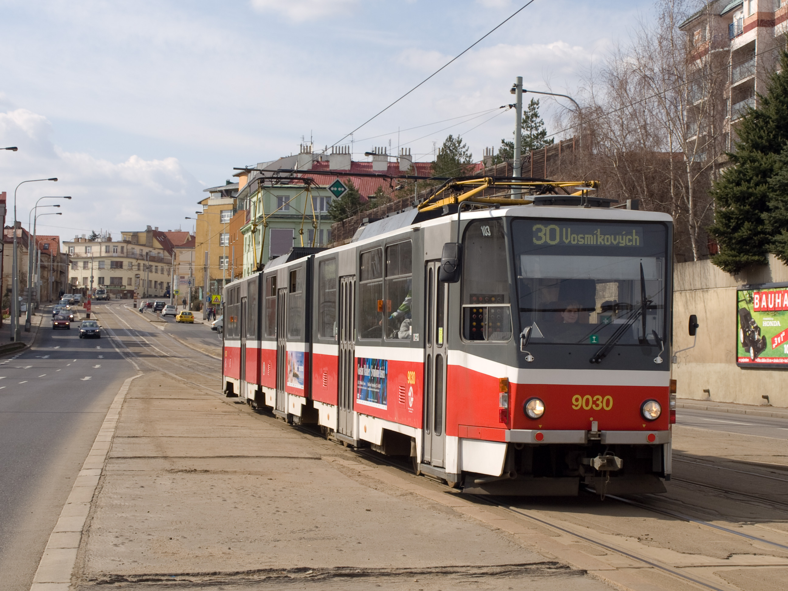 Tatra KT8D5,special tram line number 30, Vychovatelna tram stop, reconstruction of tram track in Zenkolva street, Prague